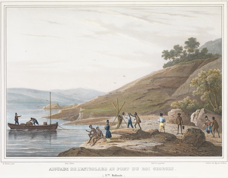 Depiction of French explorers landing at King George Sound, hand coloured lithograph, 22.3 x 32 cm